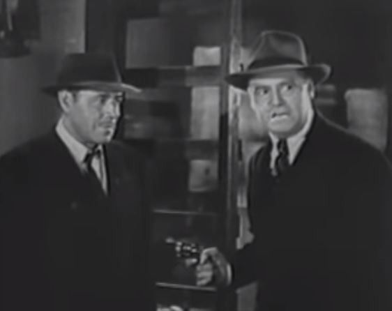 Jack Holt (left) & Edward Hearn in the serial Holt of the Secret Service, chapter six Deadly Doom (cropped screenshot)